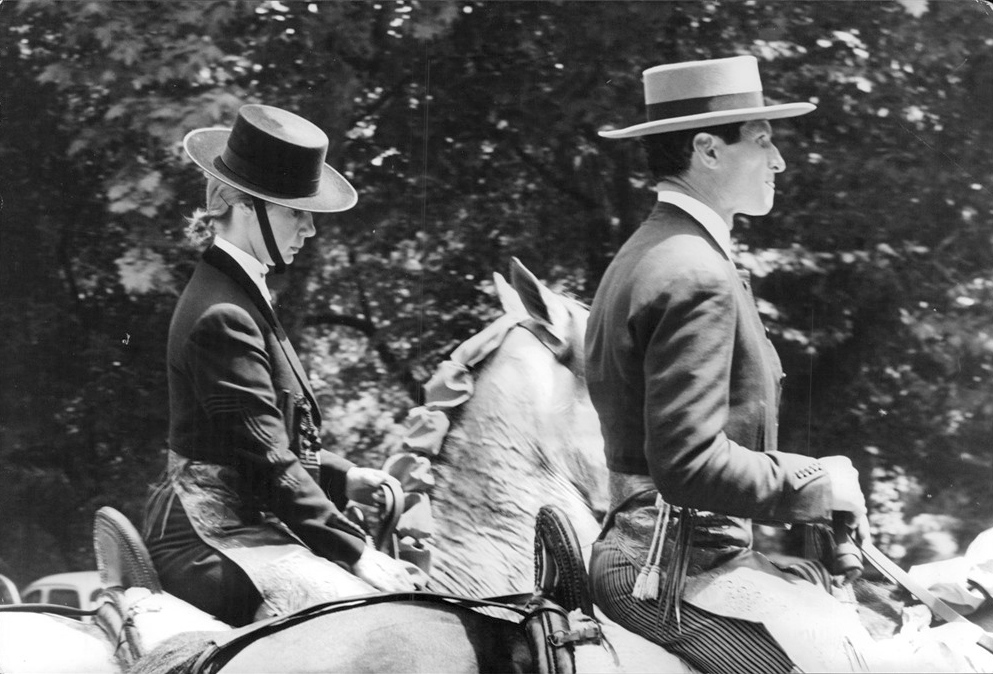 Doña María del Rosario Cayetana Fitz-James Stuart y de Silva, 18th Duchess of Alba de Tormes (left) is riding a horse with Angel Peralta a cavalier servant (right, slight forward) It is custom that the cavaliere servente should ride on the right of the lady and slightly forward, Angel Peralta follows the rule.